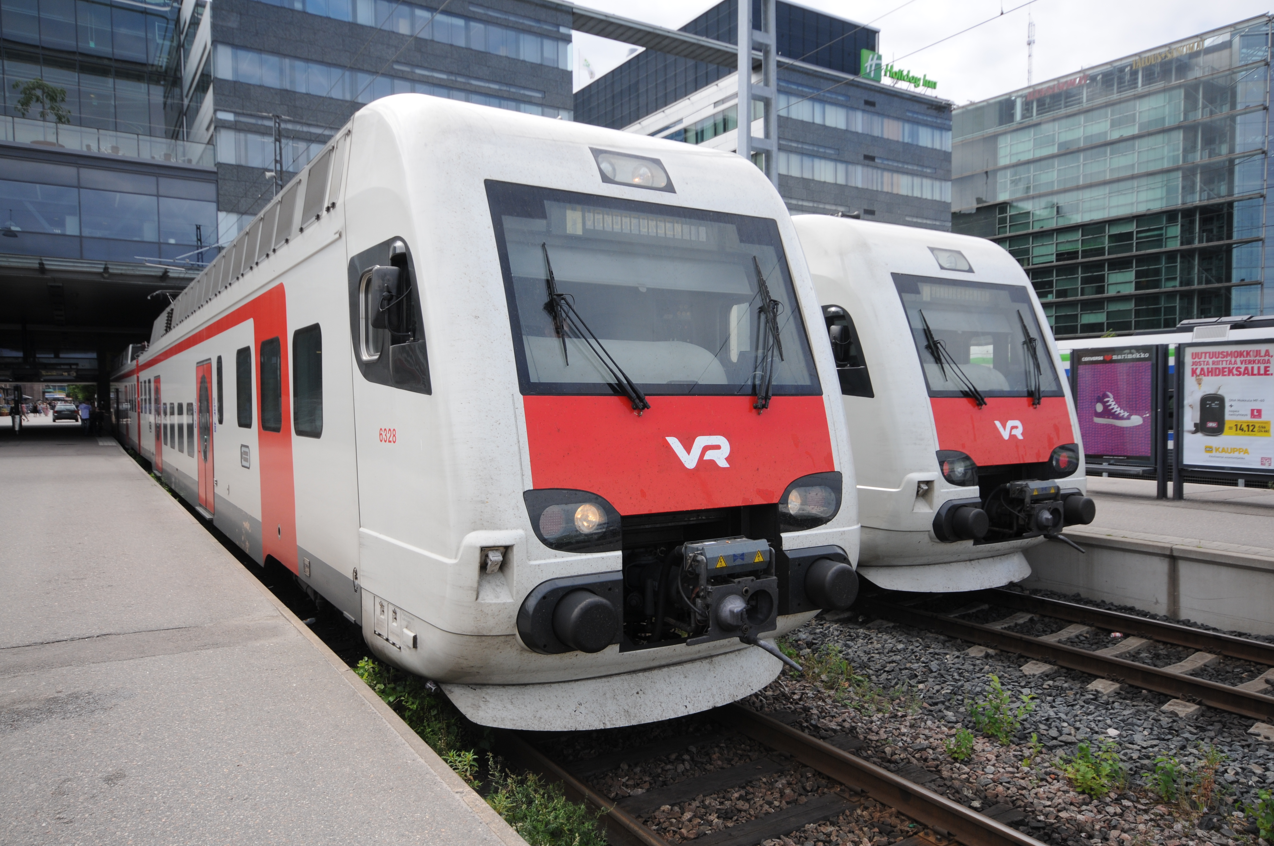 Finland, Trains VR4 in Helsinki main station